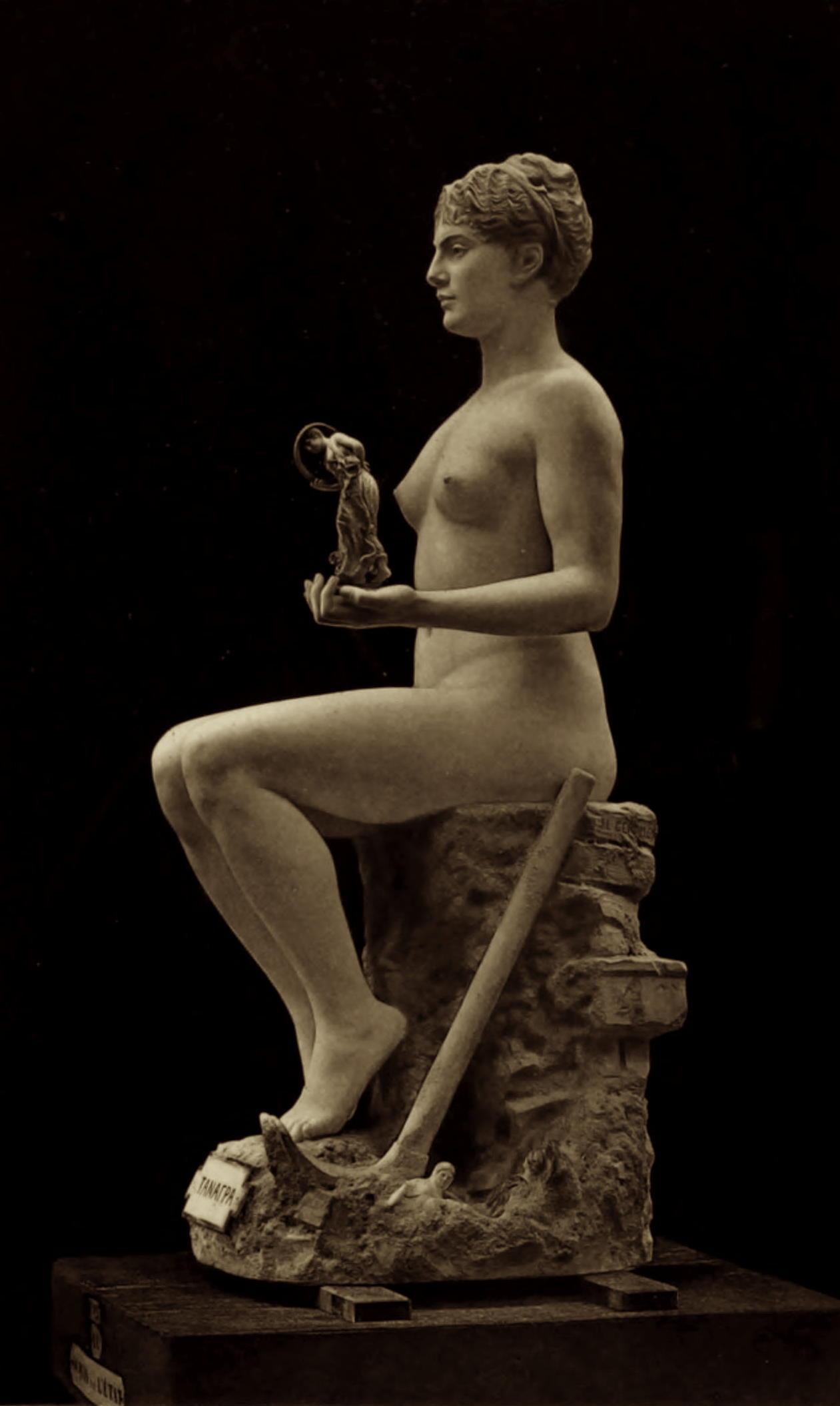 Jean-Léon Gérôme, Tanagra, marble, 1890; photogravure Goupil c. 1892